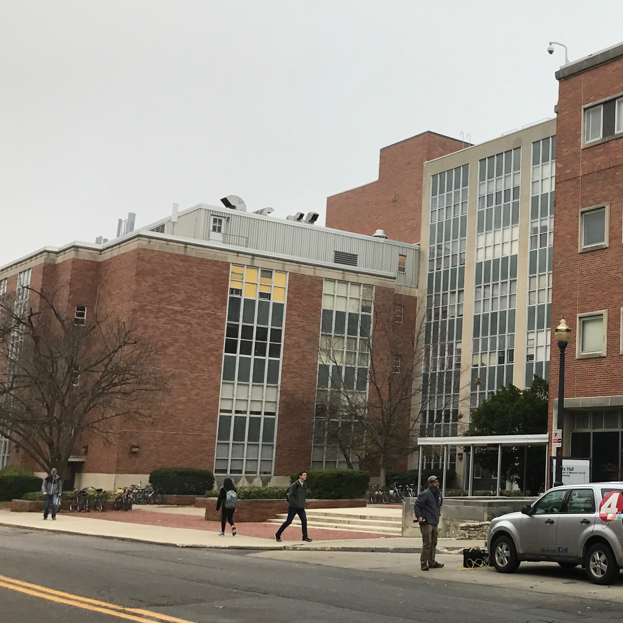 The courtyard outside Watts Hall (left building), where 2016 OSU attack happened on November 28th.